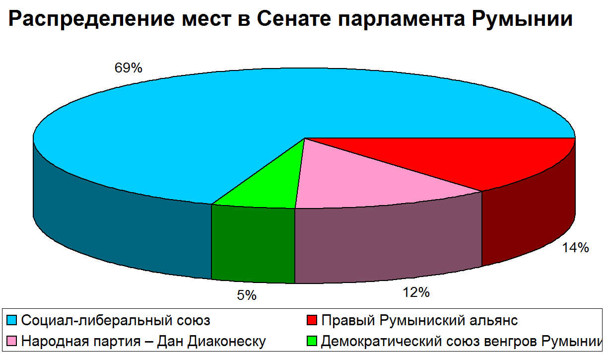 Structure of the Romanian Senate after the elections in 9th of December in 2012